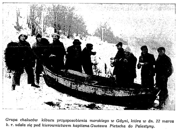 Group of Jewish youths preparing to settle in Palestine - they train in Gdynia